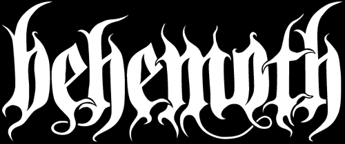 Logo of Behemoth.